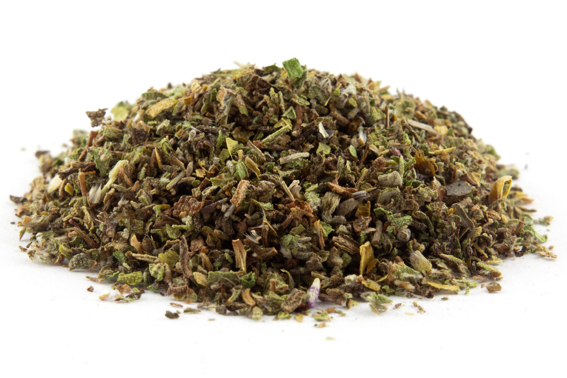 Cistus creticus dried and cutted to prepare infusions